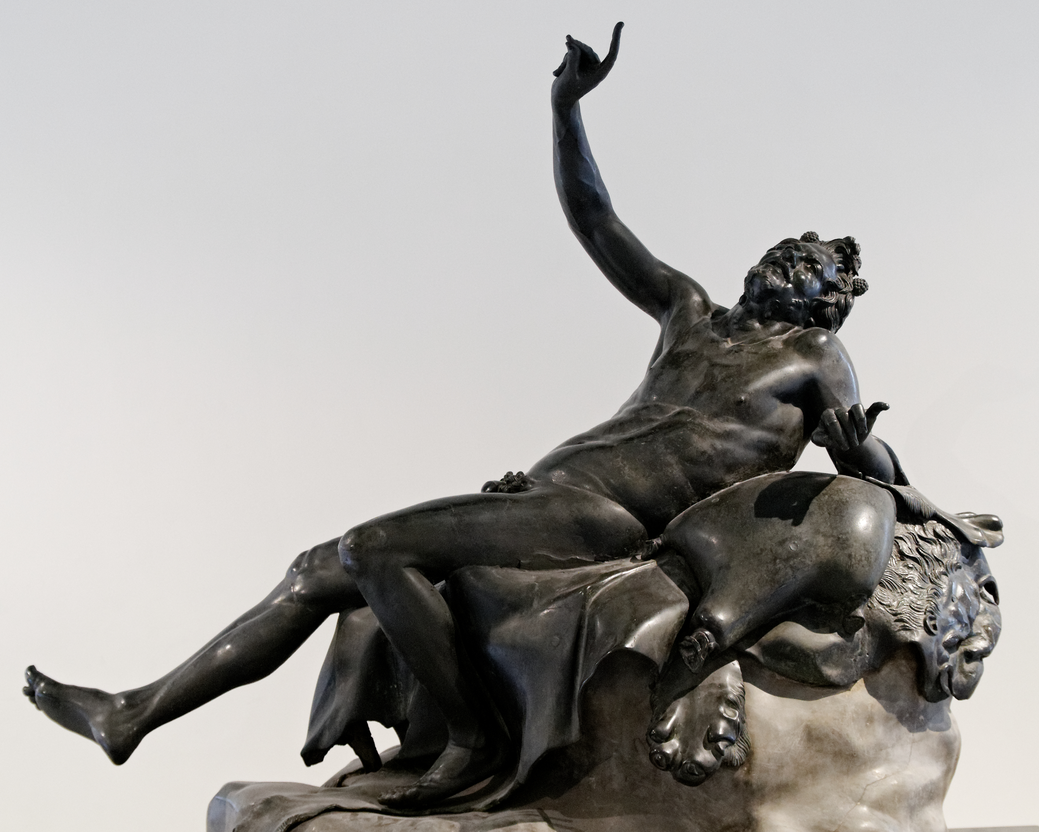 Drunken satyr.